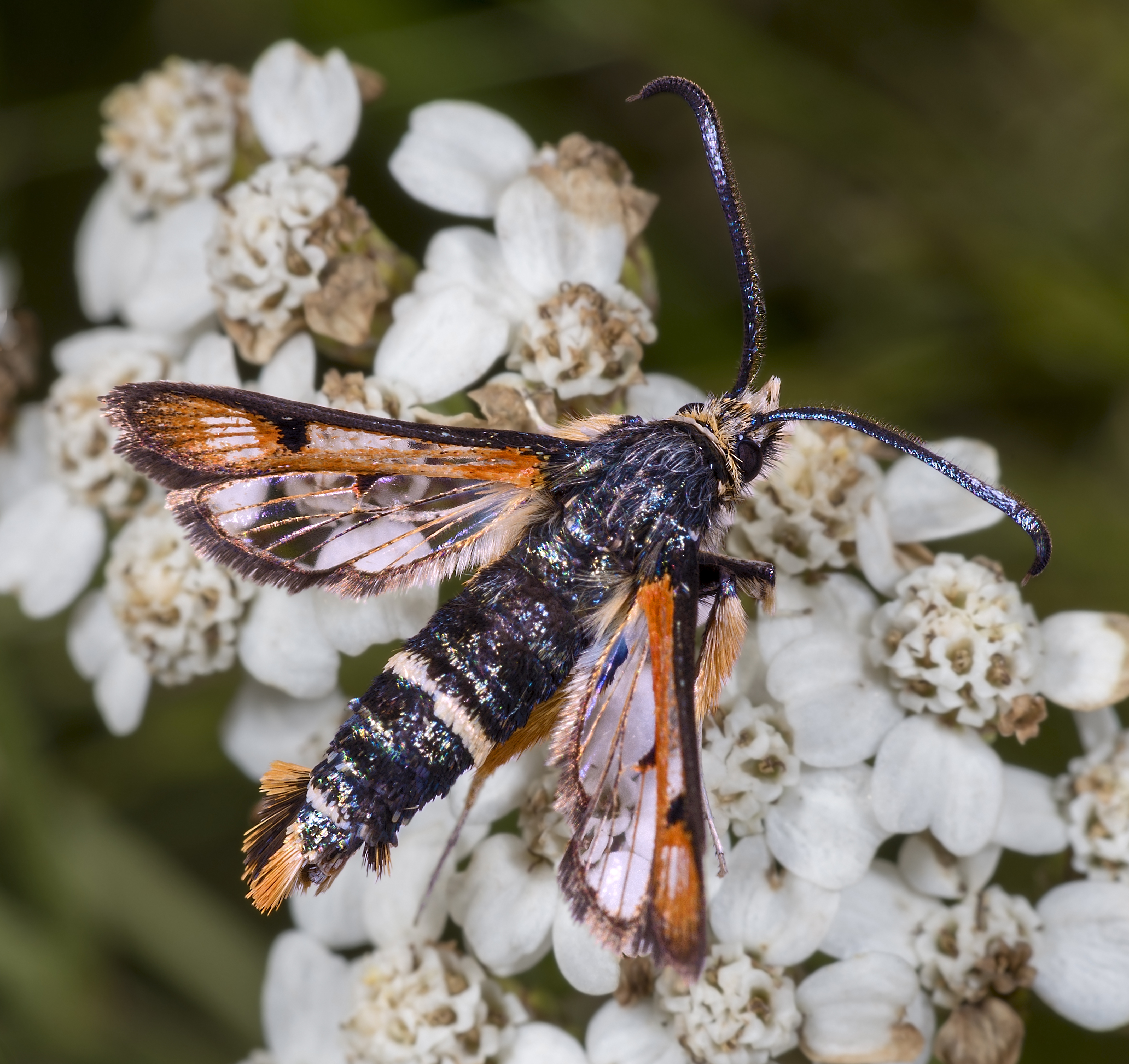 Fiery Clearwing on Achillea millefolium flowers